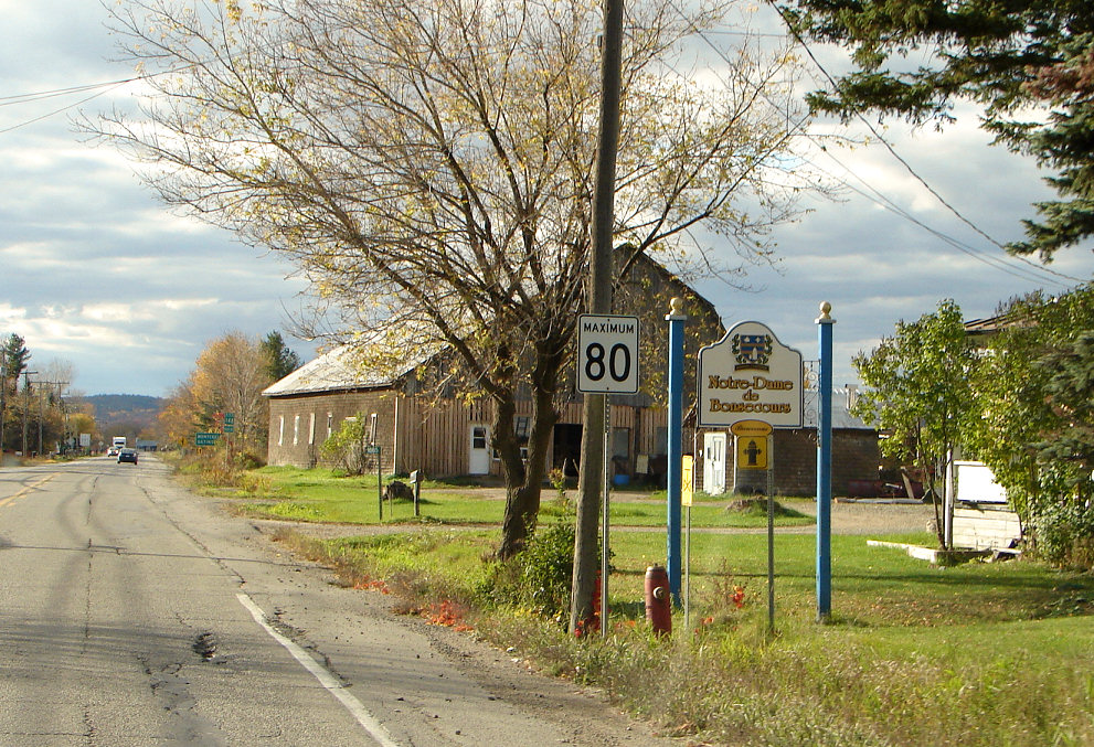 Notre-Dame-de-Bonsecours, Quebec, Canada